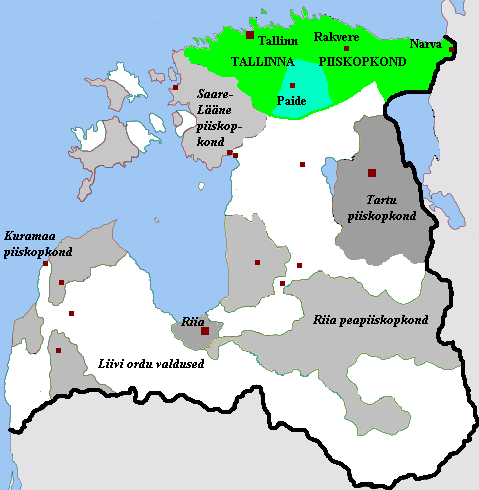 Bishopric of Reval